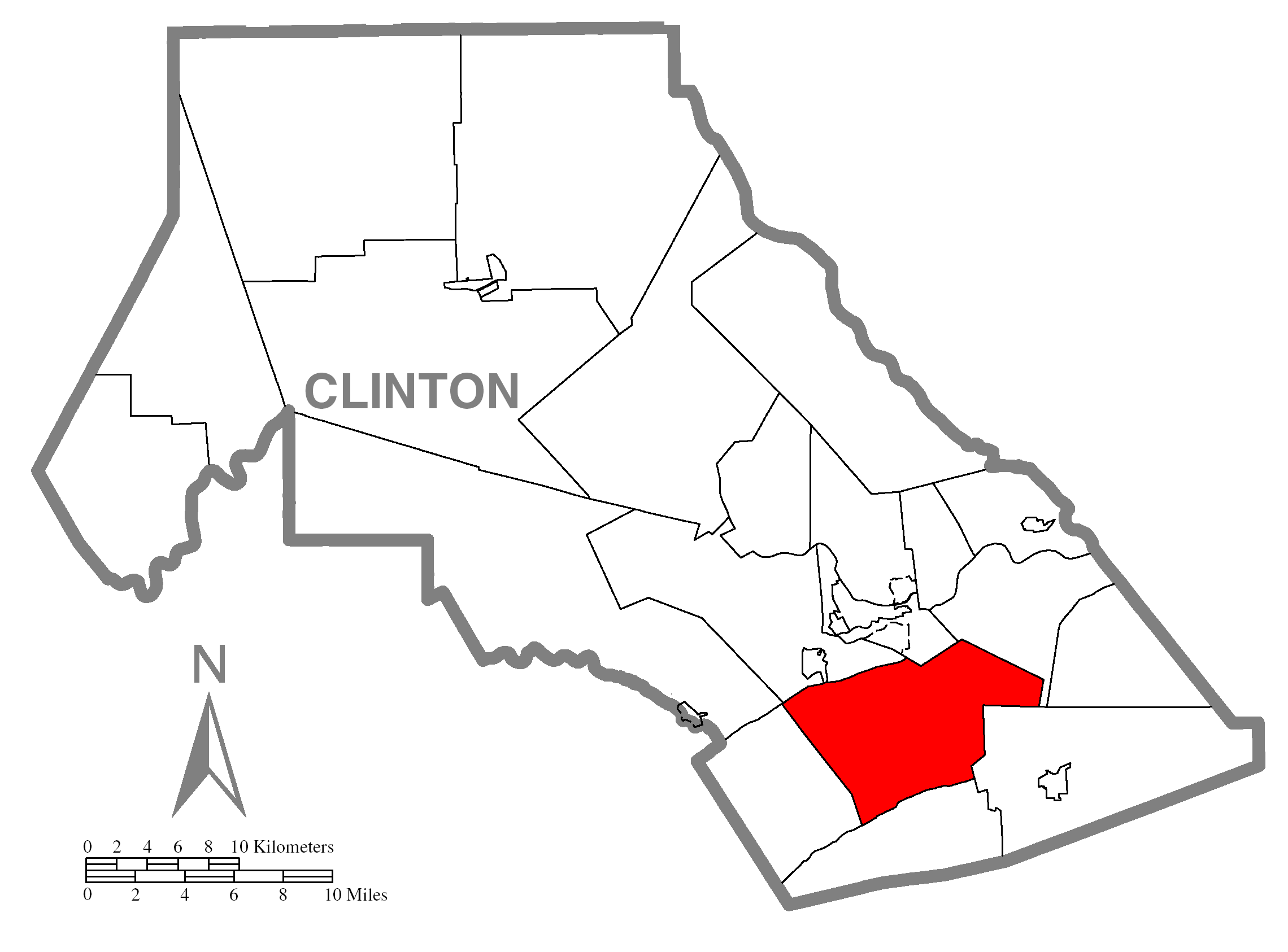 A map of Clinton County showing Lamar Township, Pennsylvania (alternate) highlighted on the map.